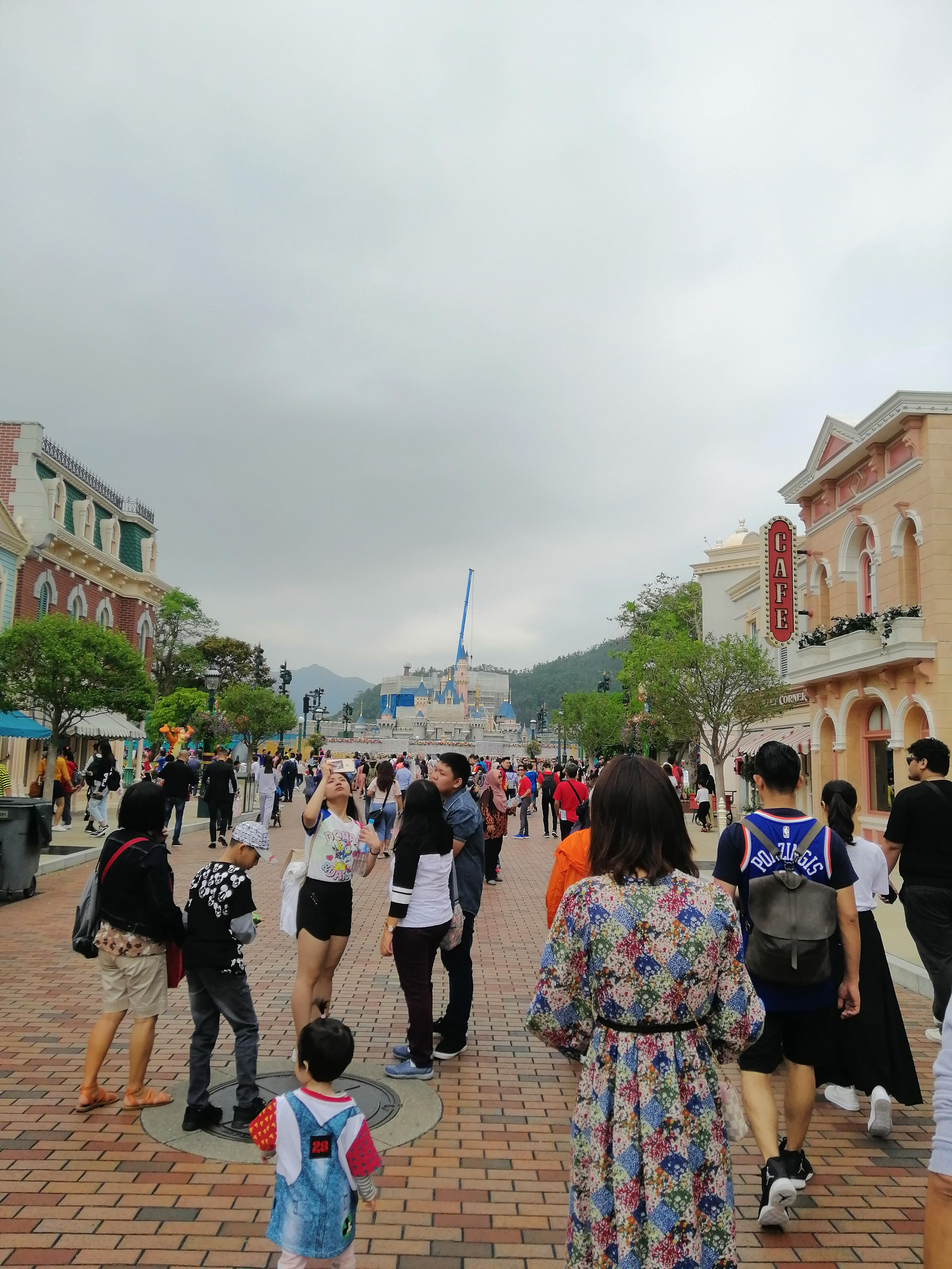 disney 1